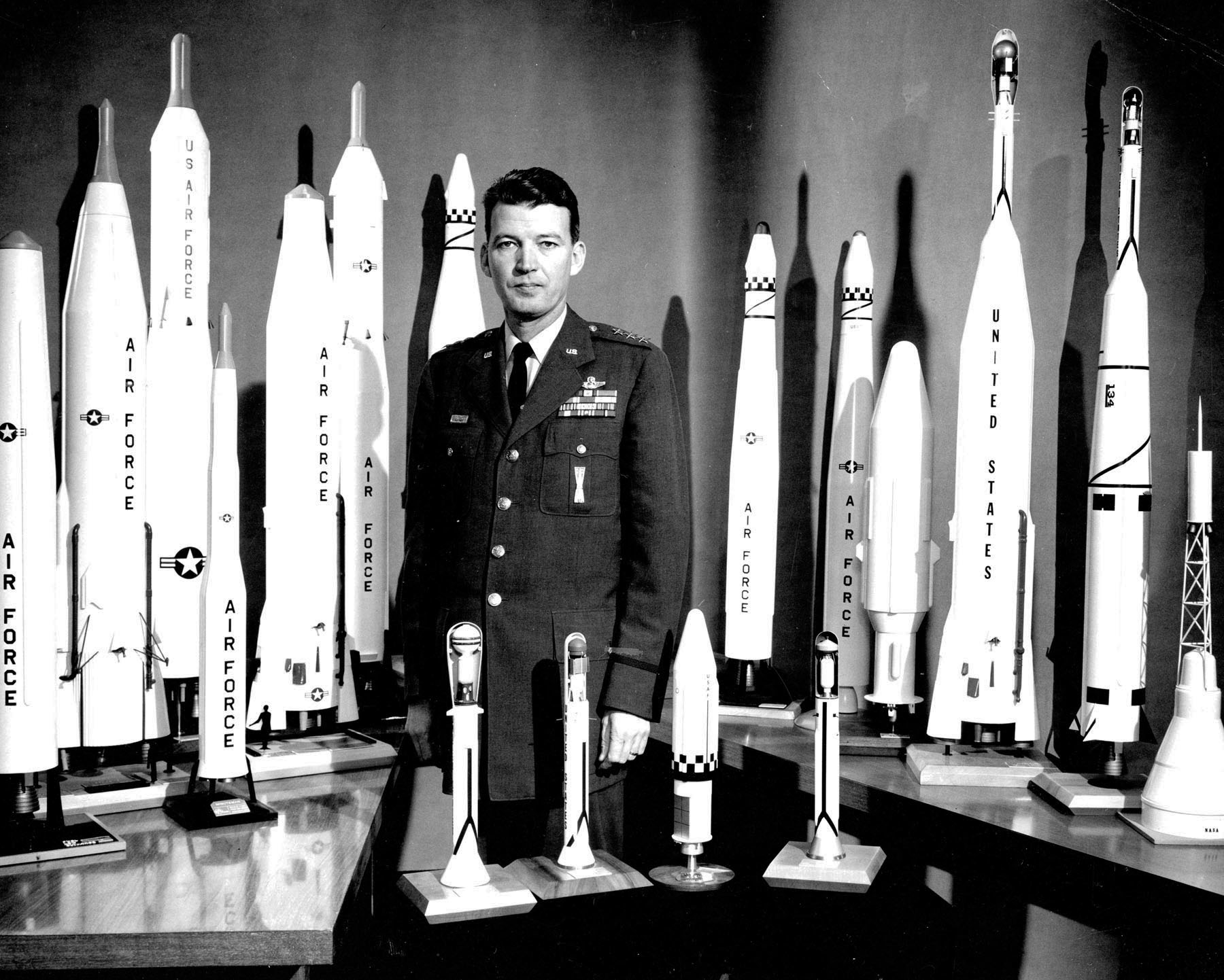 General Bernard Schriever is remembered as the “Father of Air Force space and missiles.”